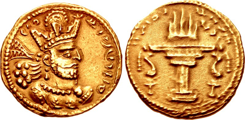 SASANIAN KINGS. Šābuhr (Shahpur) II. AD 309-379. AV Dinar (21mm, 5.79 g, 3h). Uncertain (Mint VI [Merv]?) mint. Struck circa AD 320. Bust right, wearing mural crown with korymbos / Fire altar with ribbons; blundered legend (mint signature[?]) to right of flames. SNS type Ia/2a; Göbl type; Saeedi –; Sunrise –; M. Tsotselia, History and Coin Finds in Georgia. Sasanian coin finds and hoards, p. 37, 9, pl. 1, 9 and front cover. VF, riverine patina, showing signs of water erosion. Extremely rare.